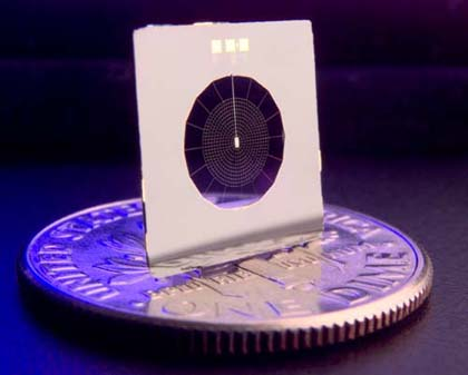 Image of spiderweb bolometer for detection of the cosmic microwave background.